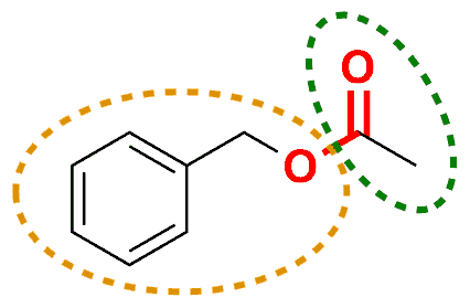 Functional group and moieties of benzyl acetate